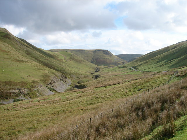 Cwmystwyth, 4 km from Cwmystwyth, Ceredigion/Sir Ceredigion, Great Britain. Looking eastwards towards Rhayader.